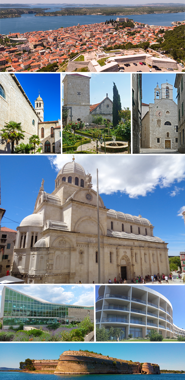 This picture is a montage of major Šibenik landmarks. The montage is made of images available on Wikipedia Commons.